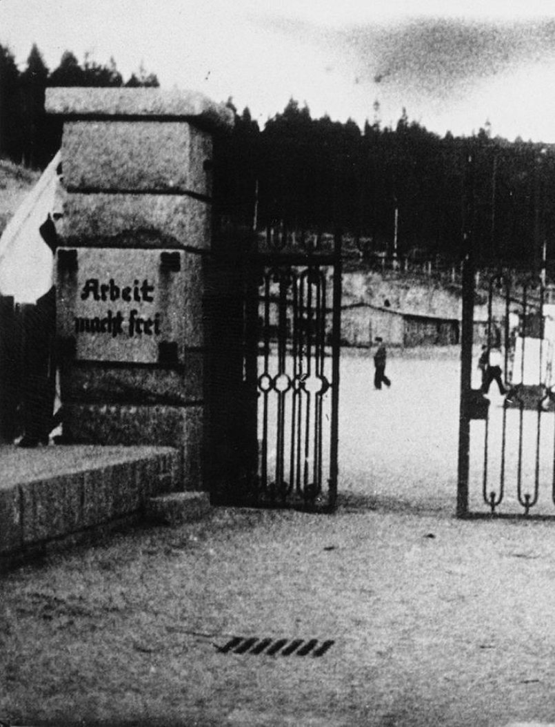 The gate of Flossenbürg concentration camp reads "Arbeit mach frei"